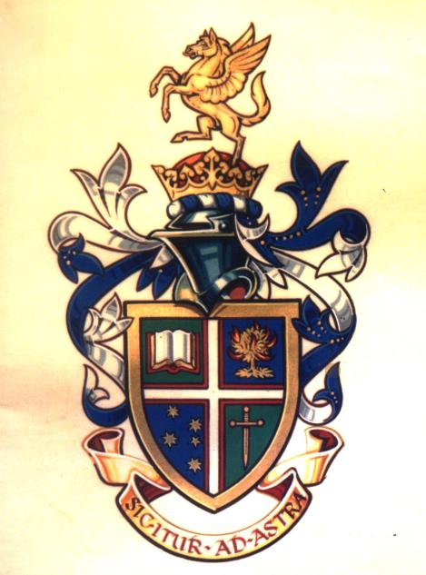 Crest of The Geelong College. This has been changed numerous times, most recently circa 1990.